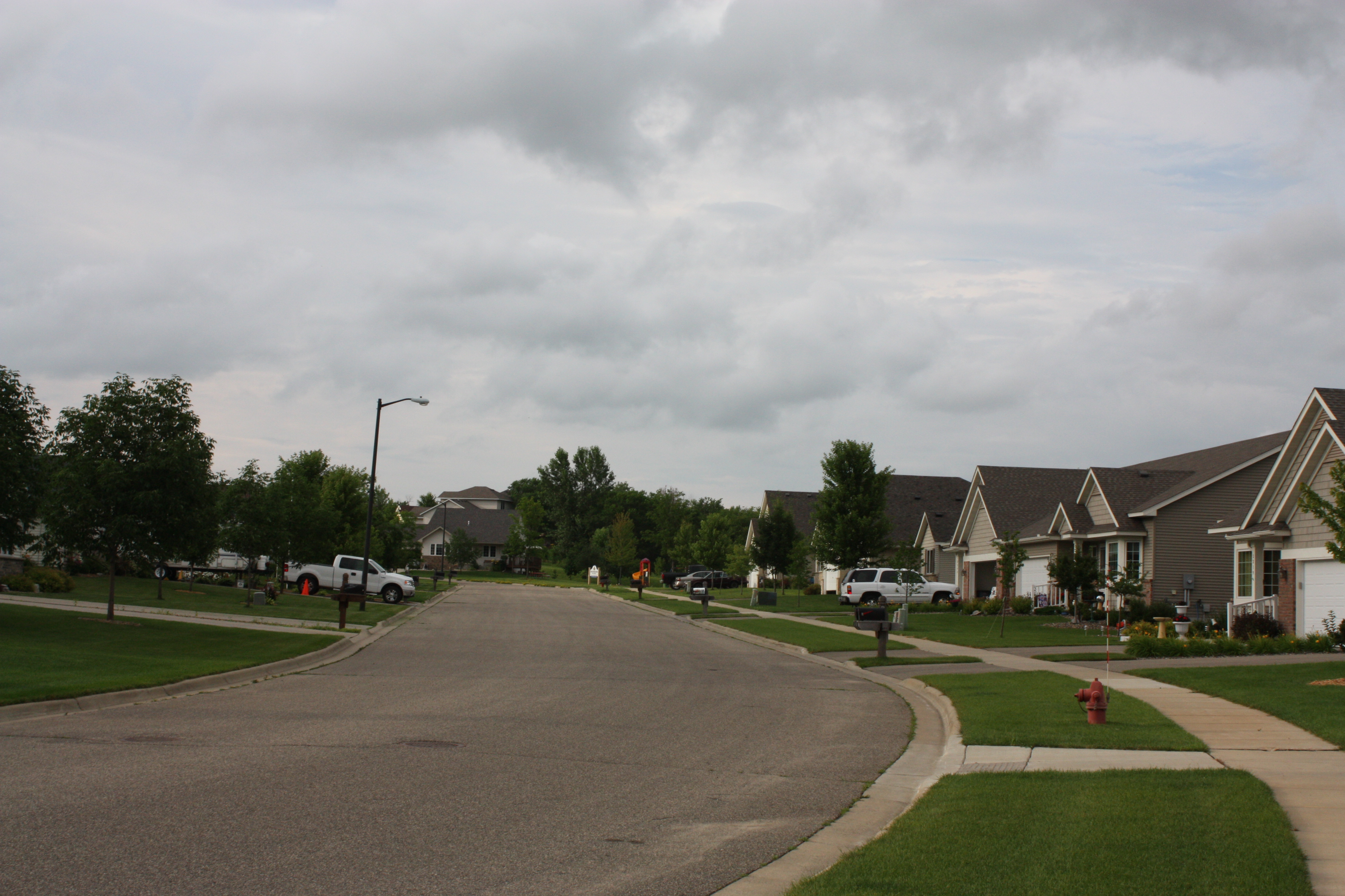 Residential areas in Faribault, Minnesota.